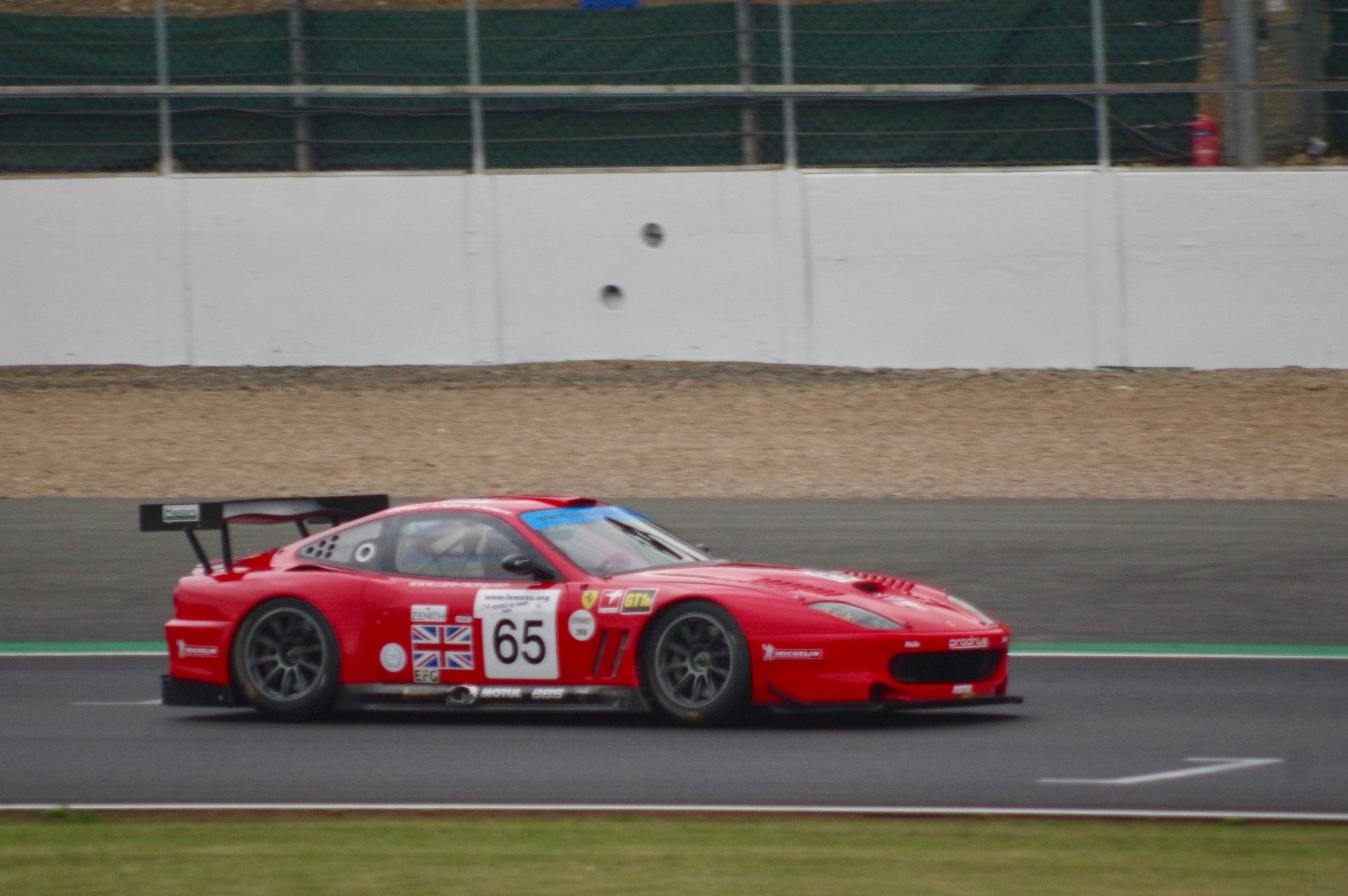 Silverstone Classic 2019 Aston Martin Trophy for Masters Endurance Legends